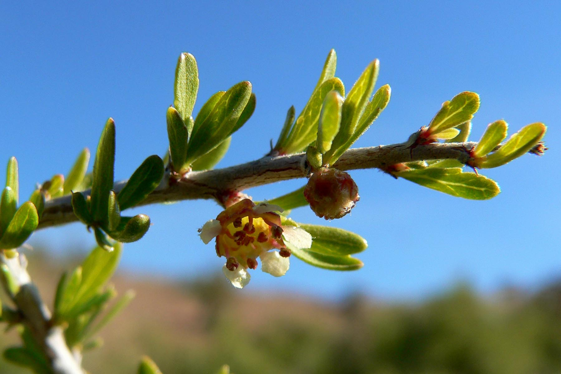 Photo of Prunus fasciculata (desert almond) in Red Rock Canyon, Nevada